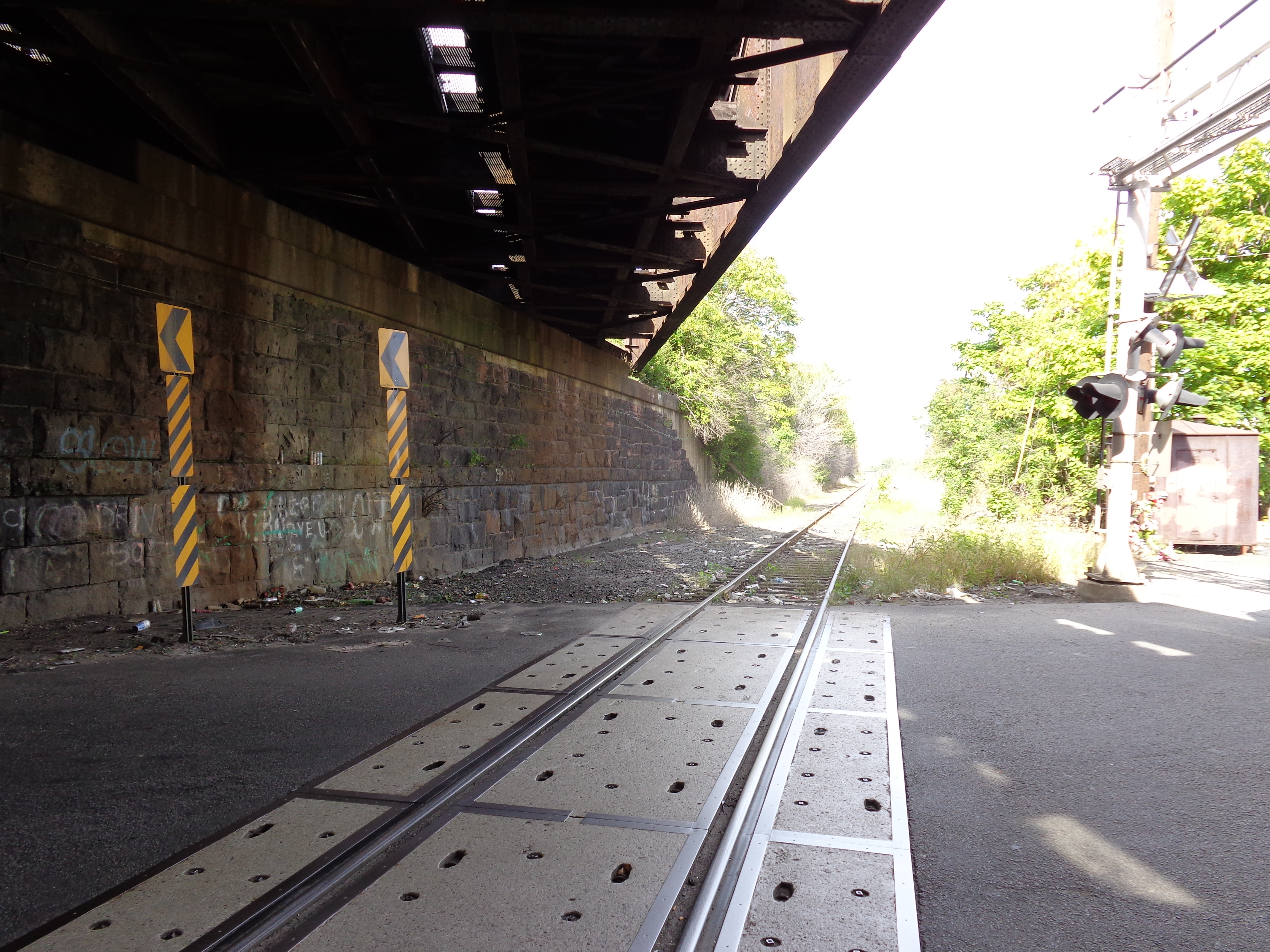 CSX at Babbitt, North Bergen. Former Erie Northern Branch passes under former NYC West Shore north of former Granton Junction near 83rd Street. Hudson-Bergen Light Rail Northern Branch Corridor Project calls for closure of at-grade crossing